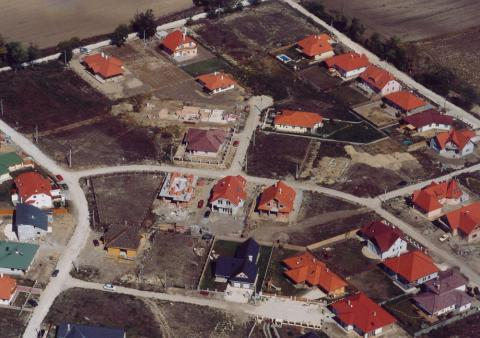 Páty, Hungary, aerialphotography